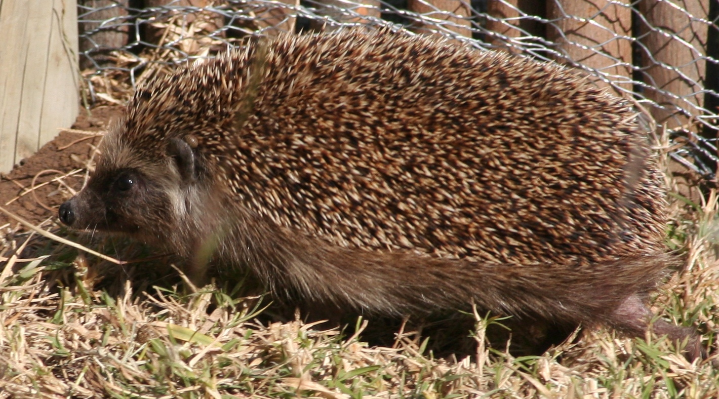 Southern African Hedgehog seen from the left